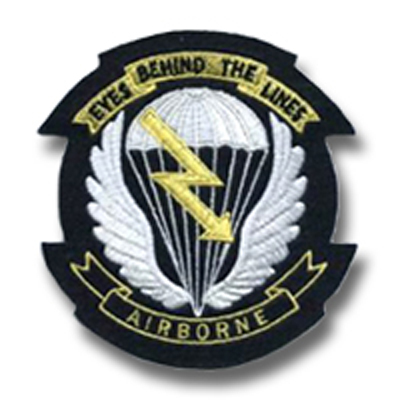 VII. Corps Airborne